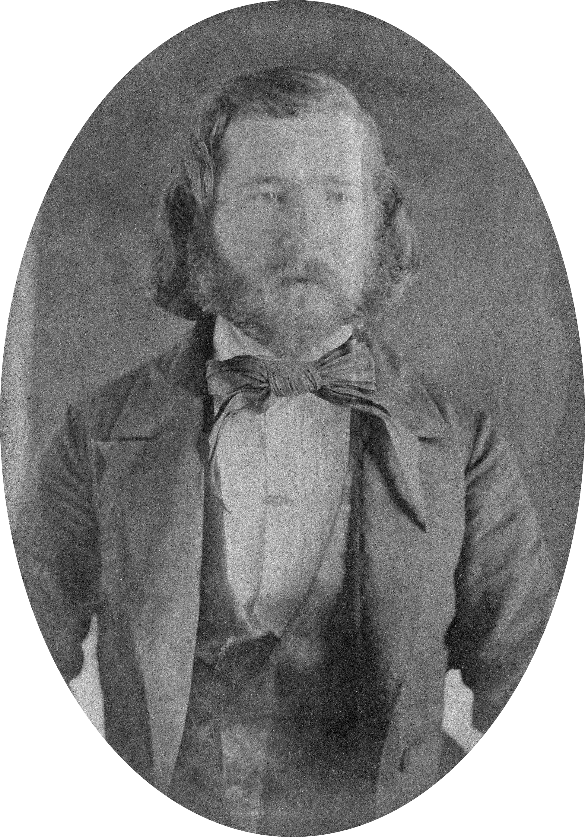 Self portrait of photographer Samuel C. Mills